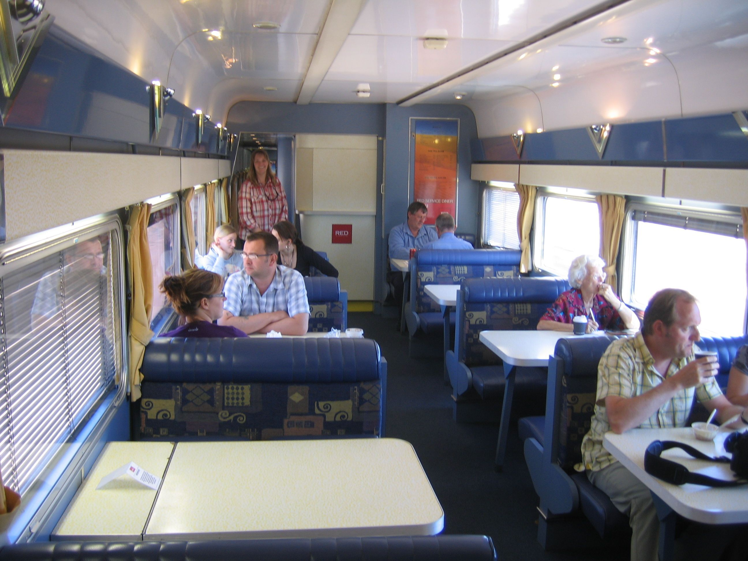 The Ghan, Restaurant-car, second class